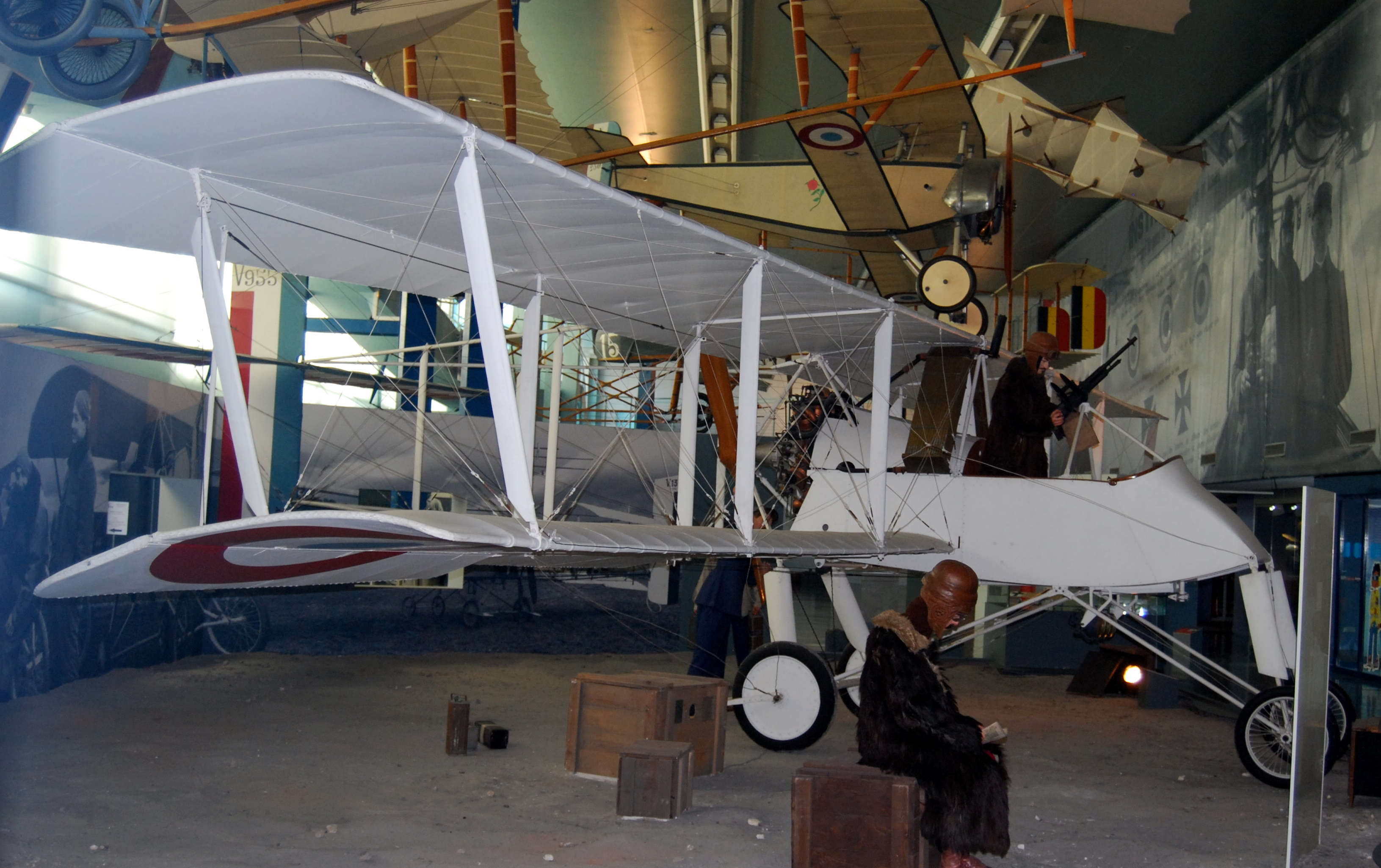 Photo ref; DSC1130-2012